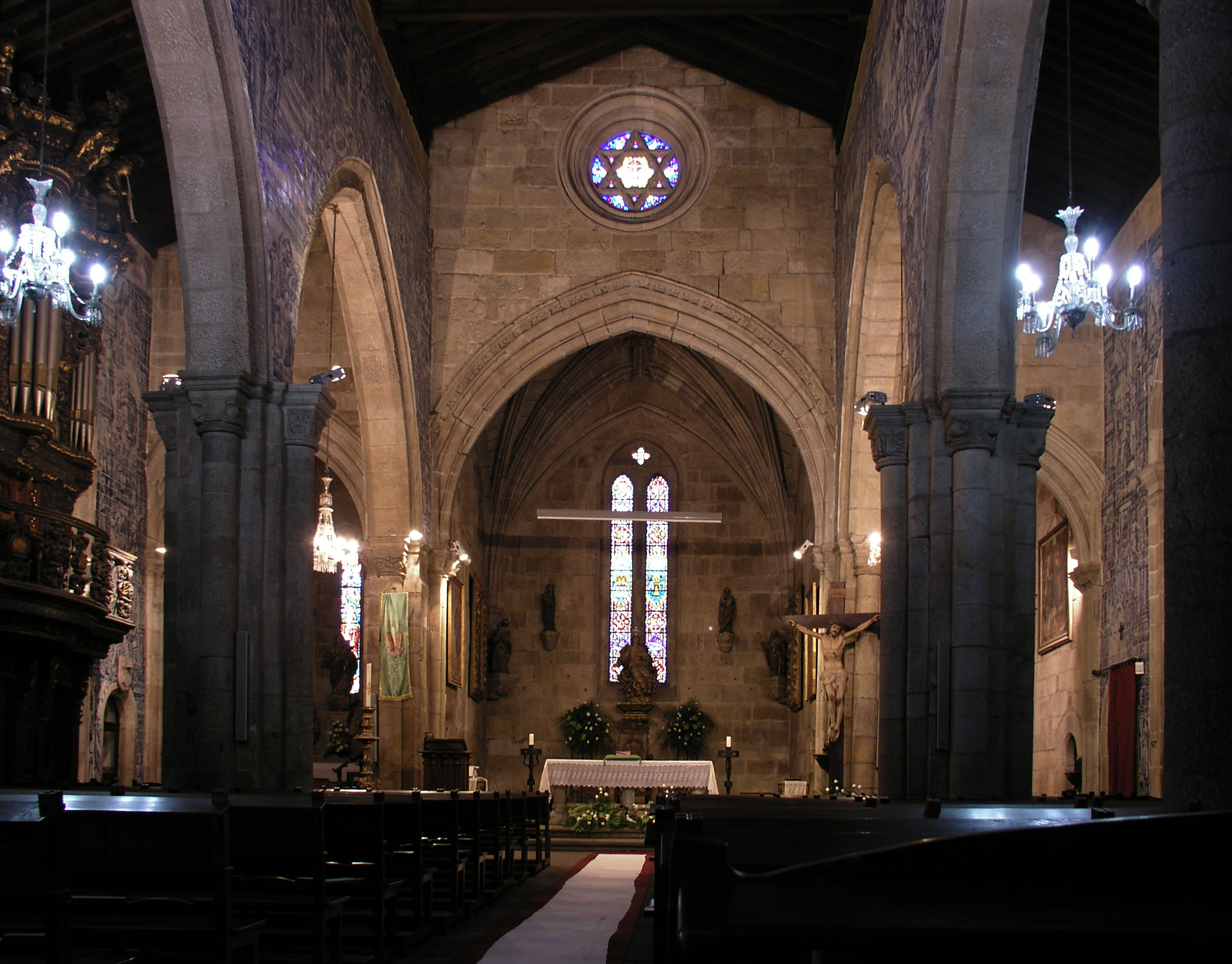 Principal church in Barcelos, Portugal.